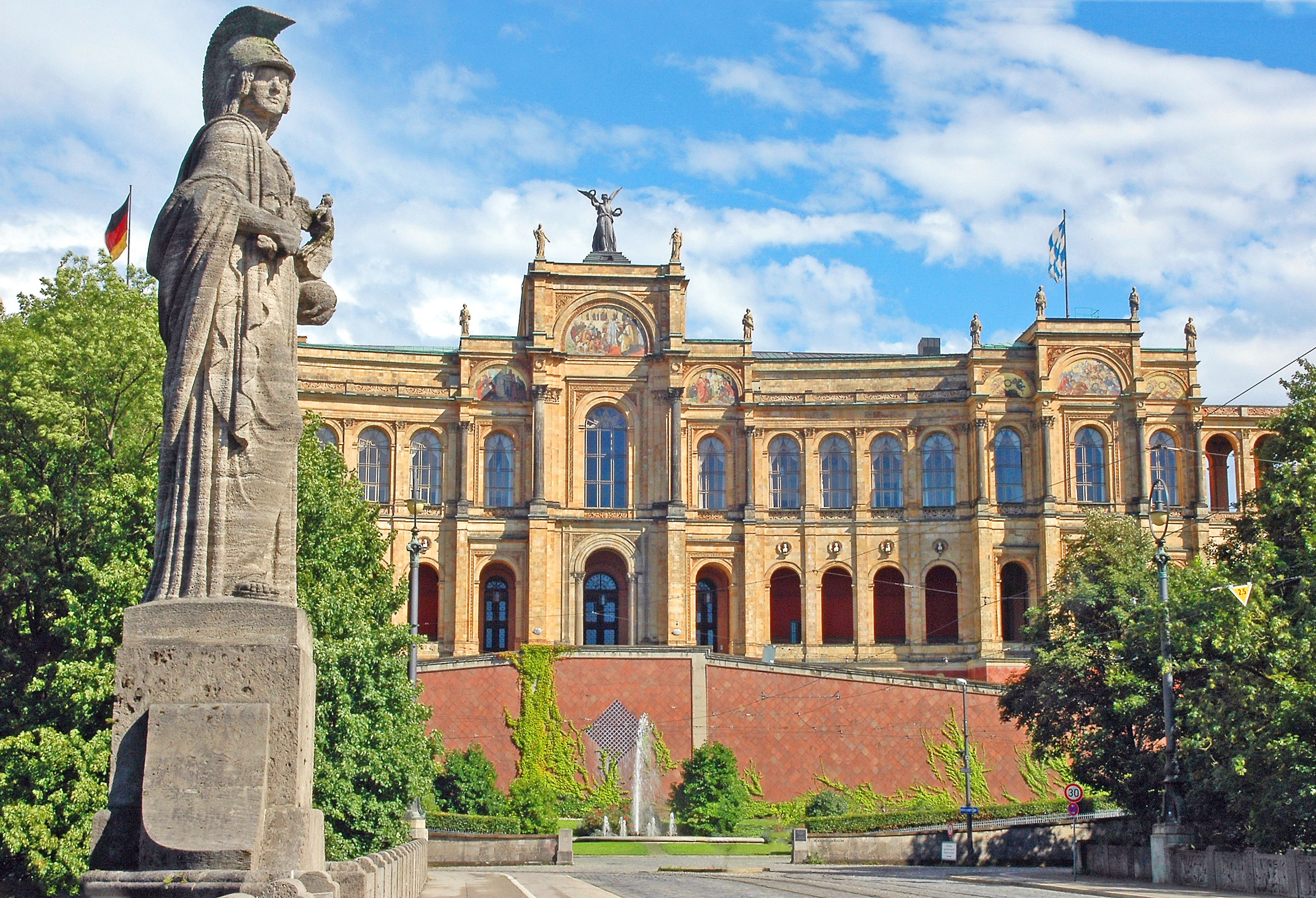 Maximilianeum (seat of the Bavarian state parliament) in the Munich district Haidhausen